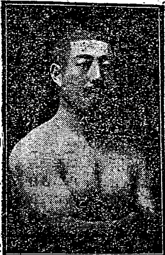 MISHIMA Yahiko, a Japanese Olympian. At the time of this photo, he was a student of Tokyo Imperial University.